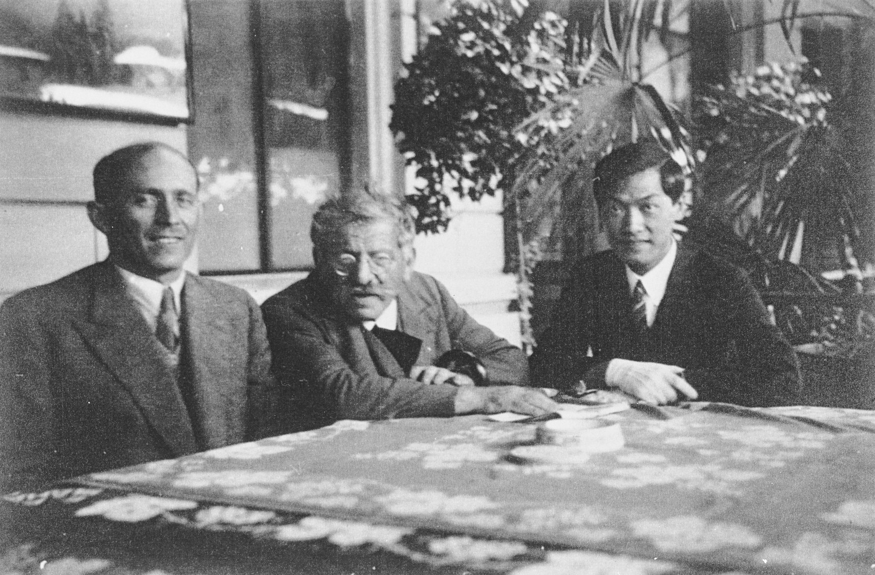 From left, unknown location